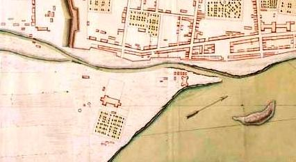 Pointe à Callière in Map of Montreal 1749.jpg